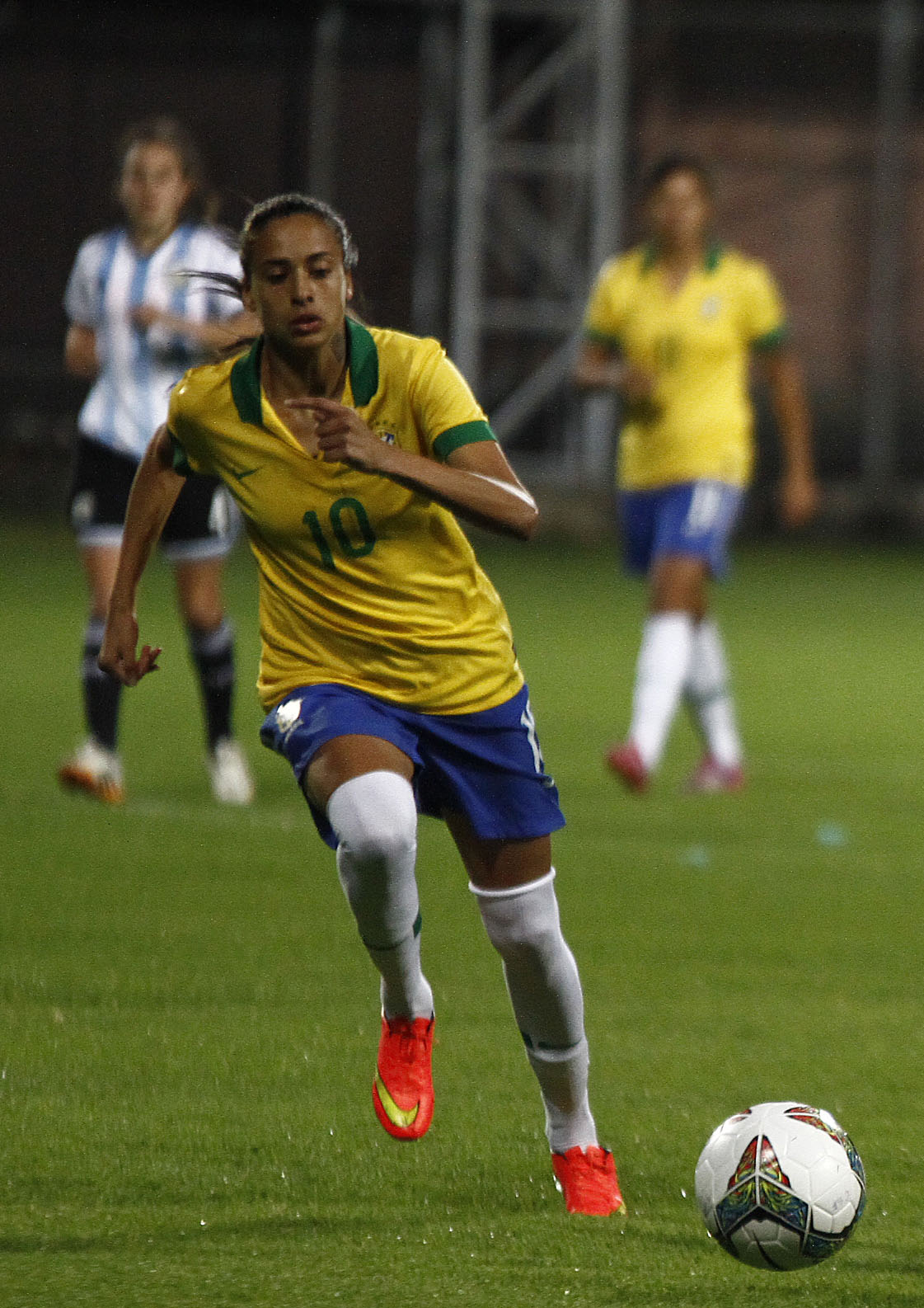 Sangolqui, 26 (Andes).- En el estadio de Sangolquí se enfrentaron las seleciones de Brasil y Argentina por la Copa Amérca Femenina Ecuador 2014, Foto: Micaela Ayala V./Andes This file comes from the Flickr stream of the Public News Agency of Ecuador and South America and is copyrighted.This file is verified as being licenced under an appropriate Creative Commons licence.In short: you are free to modify the file as long as you attribute Photographer name/Andes and distribute it under the same licence. This tag does not indicate the copyright status of the attached work. A normal copyright tag is still required. See Commons:Licensing.